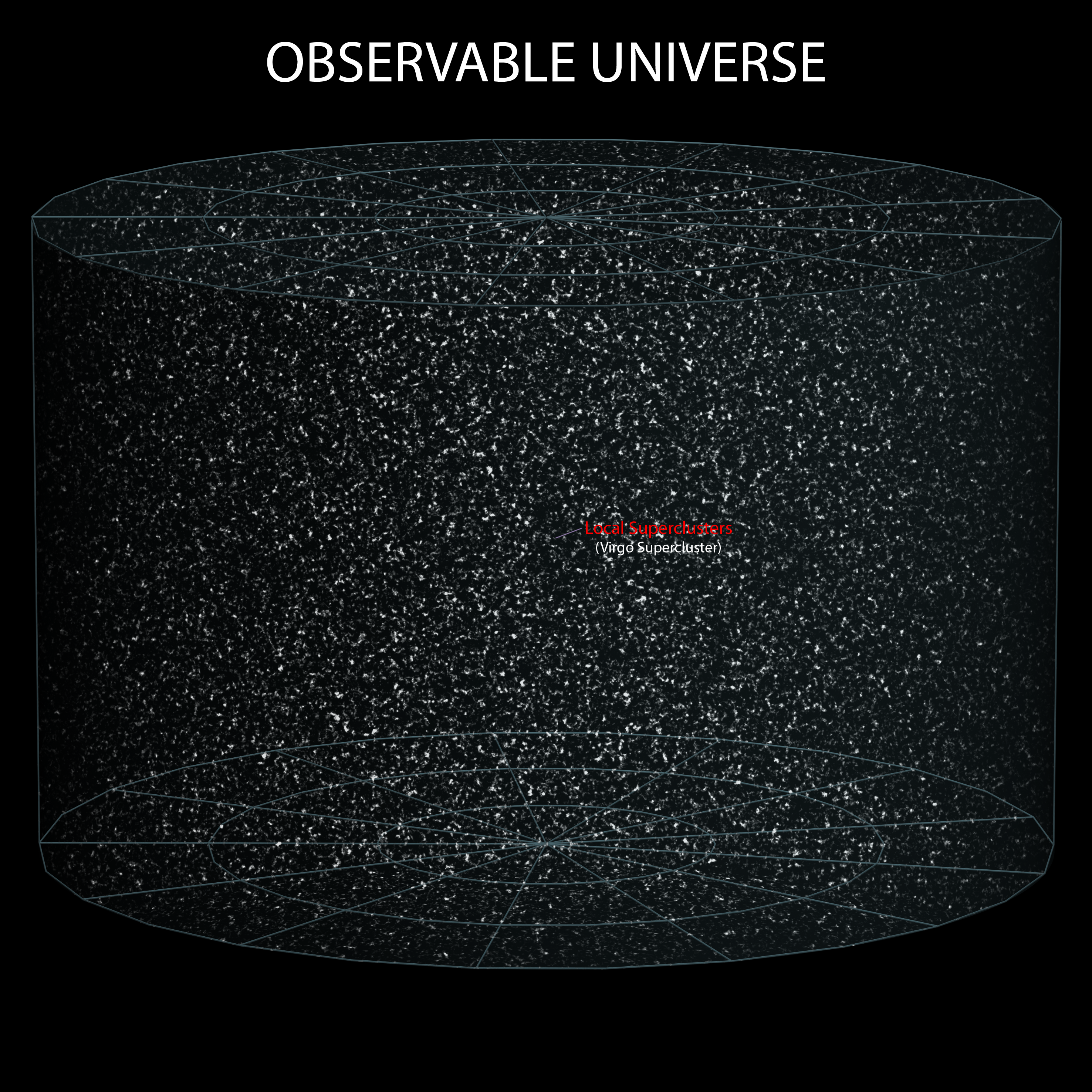 The full compilation of the image is located here: File:Earth's_Location_in_the_Universe_(JPEG).jpg NOTE: Please contact the author if requiring alterations or changes to the image for different language wiki's or for publication questions and concerns. I do ask that when redistributing my work, it be credited with the my name: Andrew Z. Colvin as I am the original author. I appreciate the cooperation and consideration of the Creative Commons Attribution-ShareAlike 3.0 Unported License and the GNU Free Documentation License agreements.